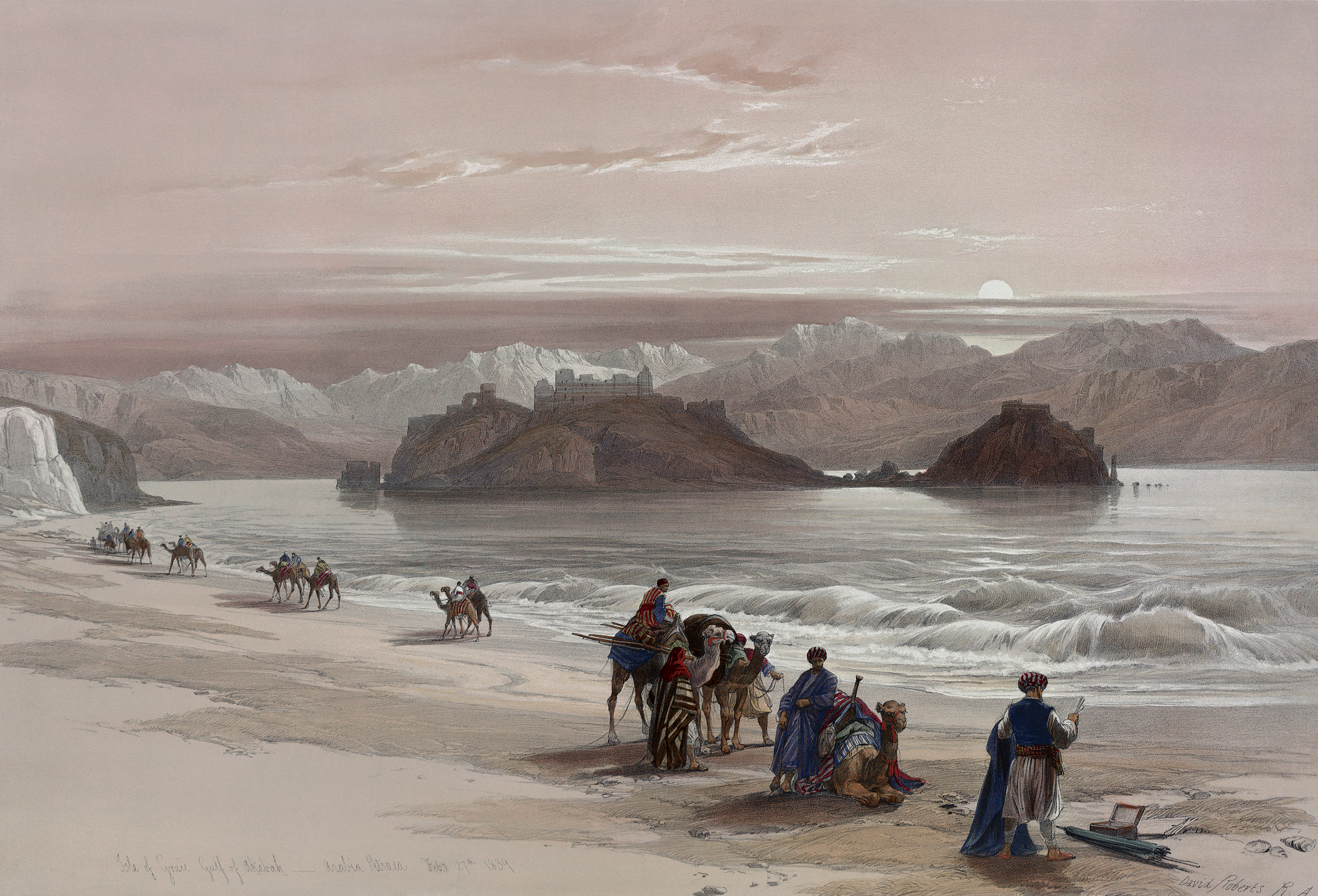 Isle of Graia Gulf of Akabah Arabia Petraea, depicting the Pharaoh's Island in the northern Gulf of Aqaba off the shore of Egypt's eastern Sinai Peninsula.